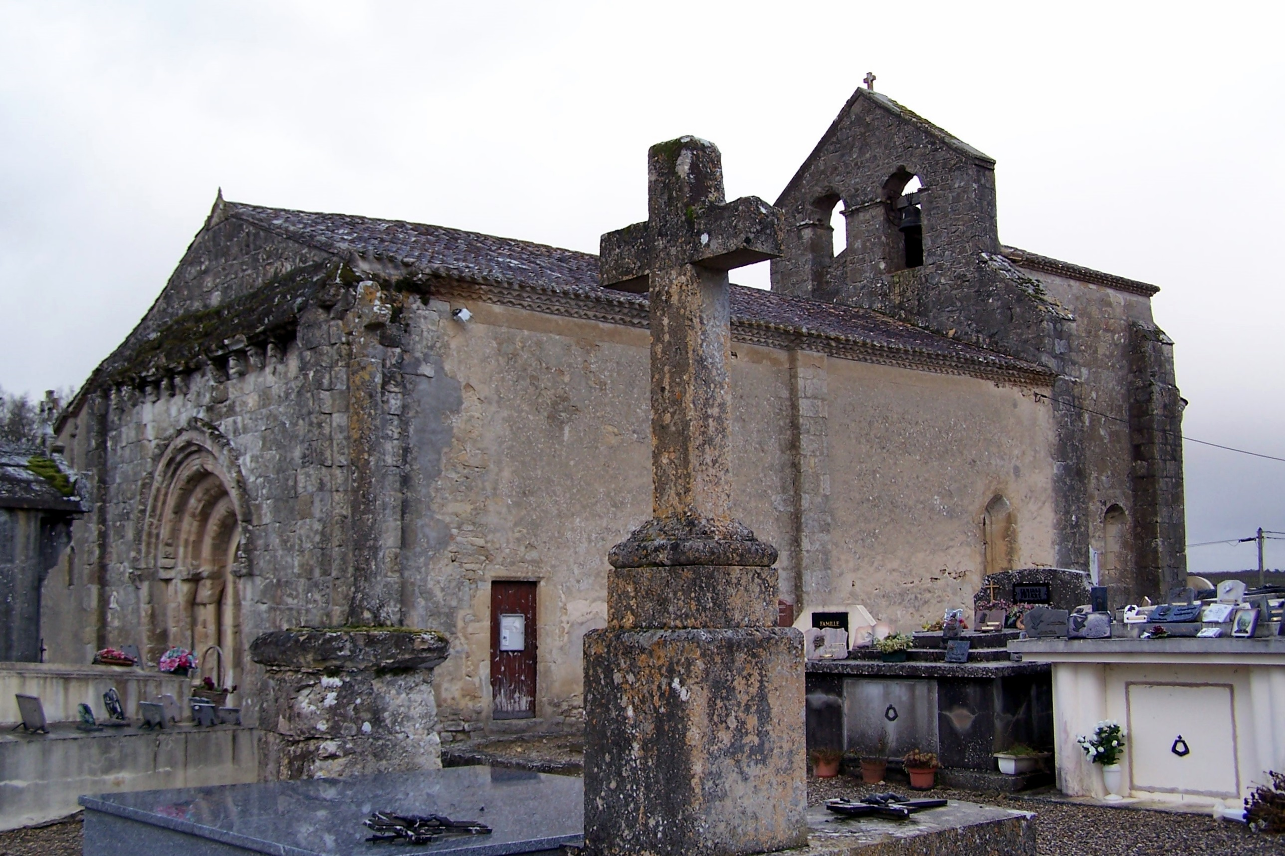 Church of Saint-Hilaire-du-Bois (Gironde, France)